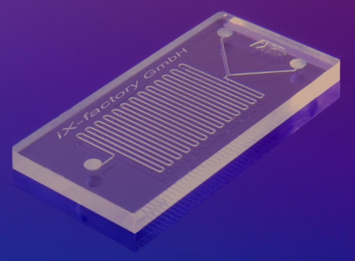 Microfluidic Chip fabricated in Glass. Channels are 50µm deep and 150µm wide.